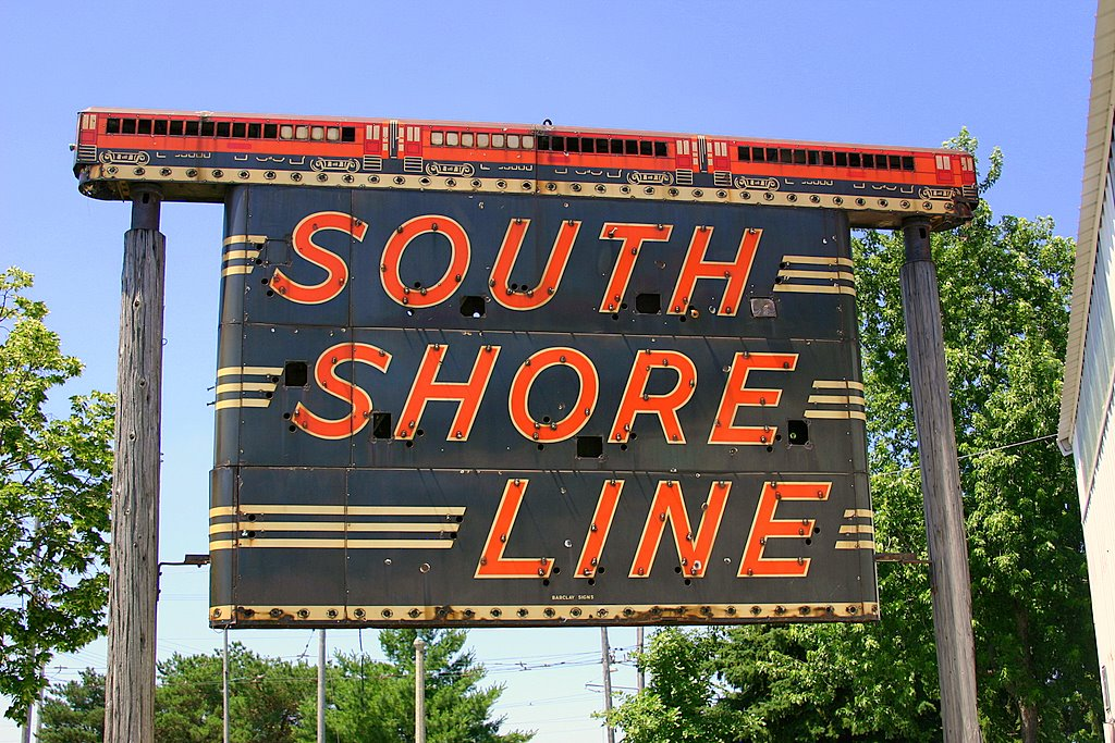 I love this sign, where was it?